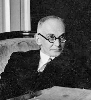 Stefan Mazurkiewicz (1888-1945) - Polish mathematician who worked in mathematical analysis, topology, and probability. Professor of Warsaw University